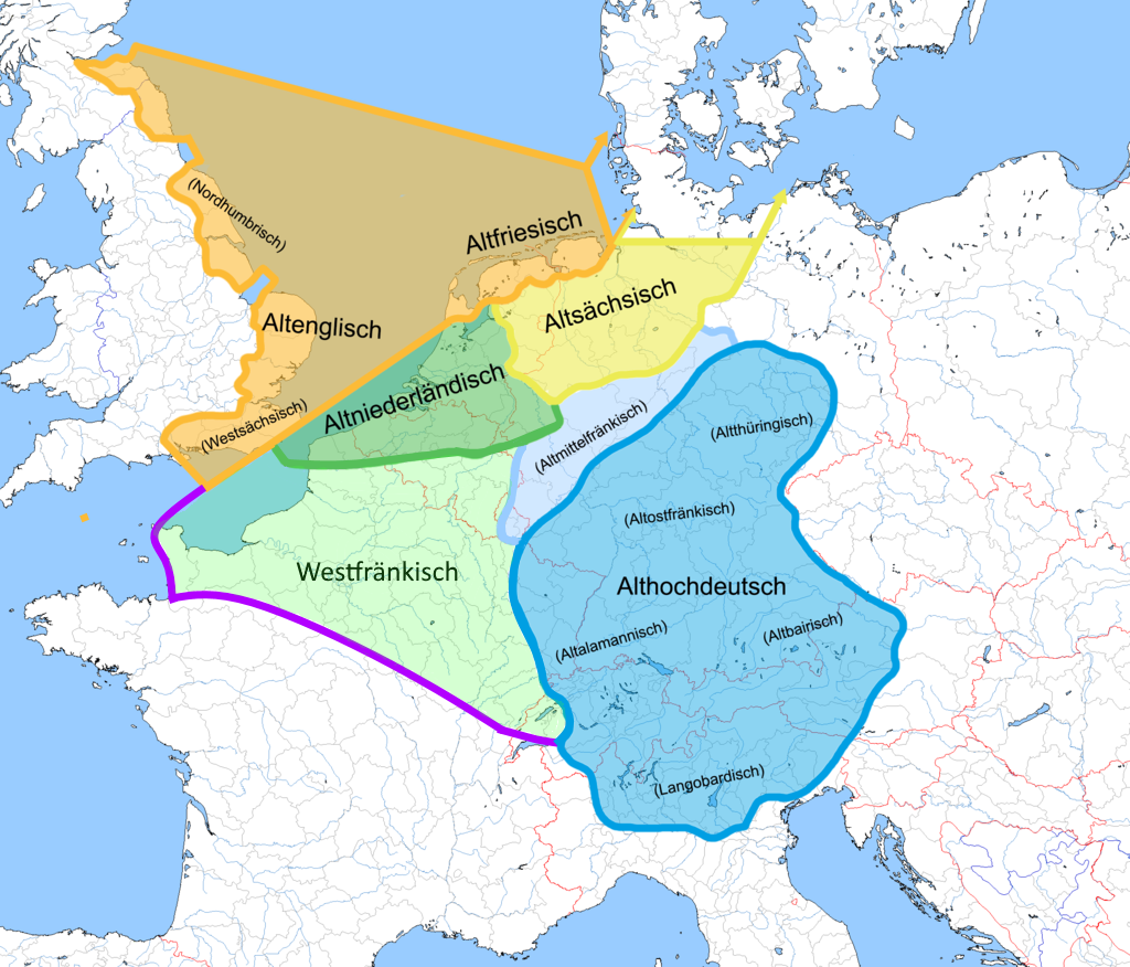 West Germanic language area about 580 CE